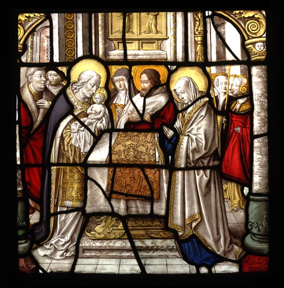 Stained glass window from Mariawald Abbey depicting the Presentation in the Temple